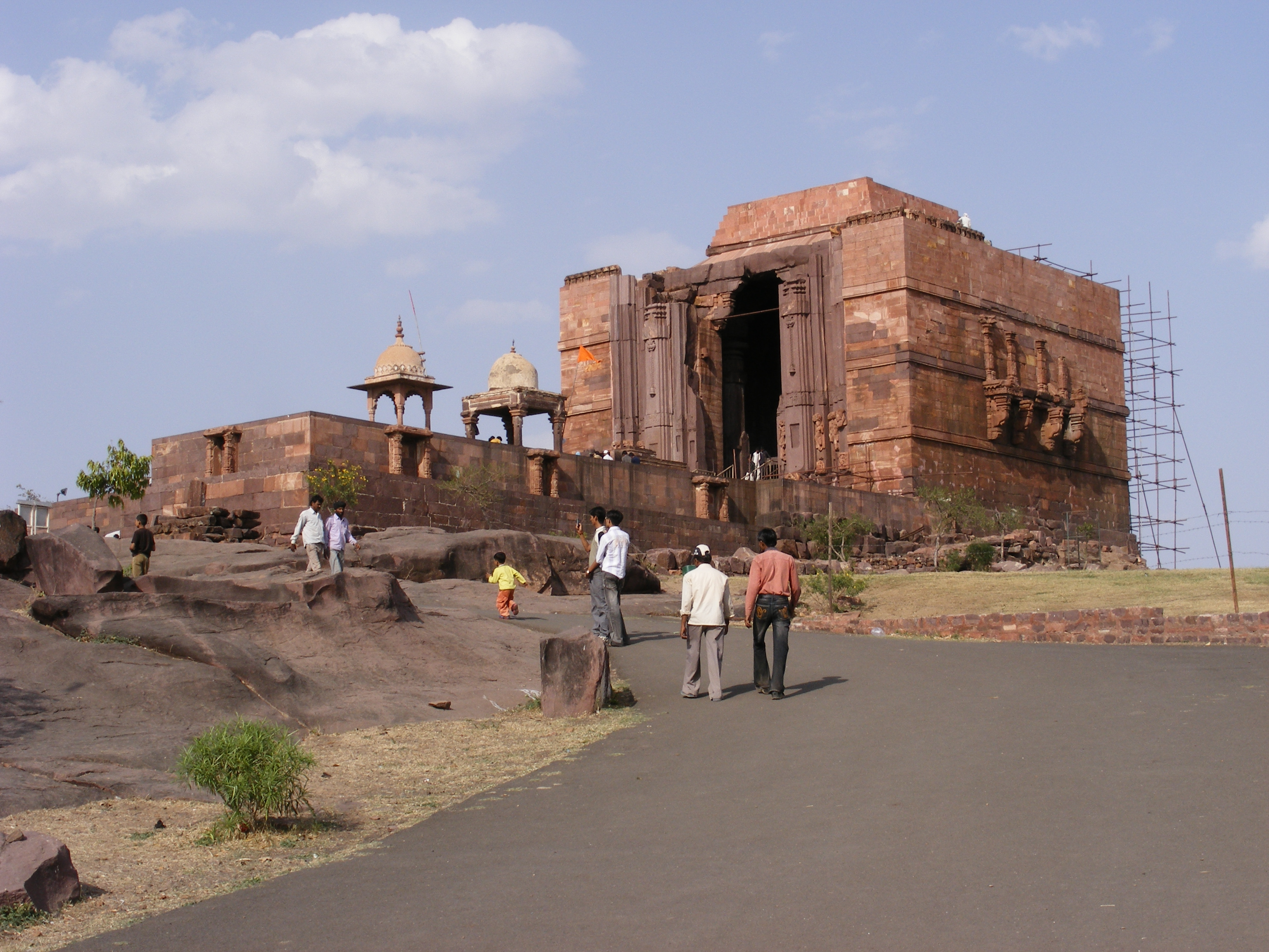 Picture depicting a shot of Shiva Temple at Bhojpur, Madhya Pradesh, India